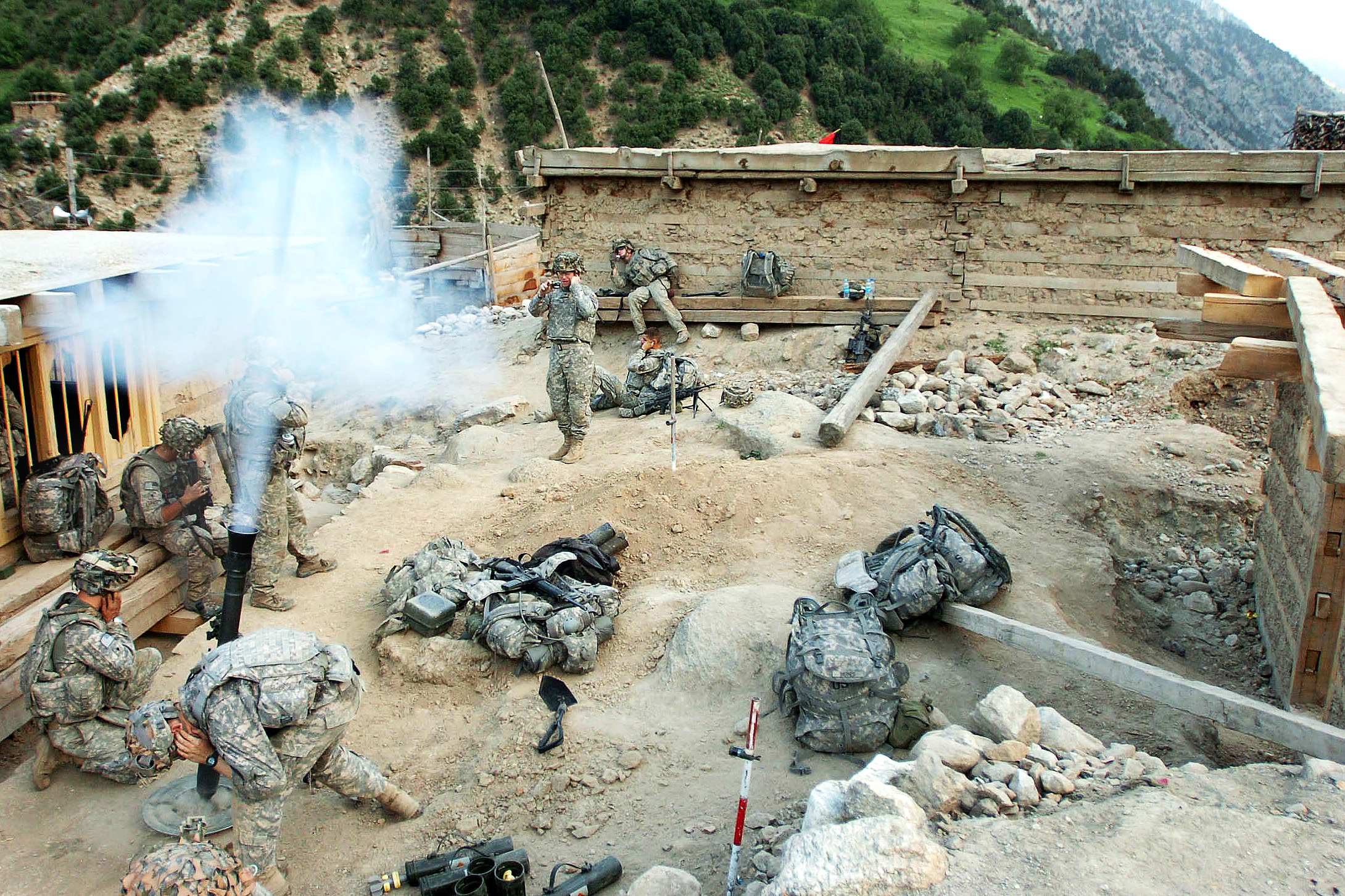 U.S. Army soldiers fire mortar rounds at suspected Taliban fighting positions during Operation Mountain Fire in Barge Matal, a village in eastern Nuristan province, Afghanistan, July 12, 2009. U.S. and Afghan forces secured the remote mountain village, which was overwhelmed by insurgent forces several days before. The U.S. soldiers are assigned to the 10th Mountain Division's 1st Battalion, 32nd Infantry Regiment. U.S. Army photo by Sgt. Matthew C. Moeller See more at